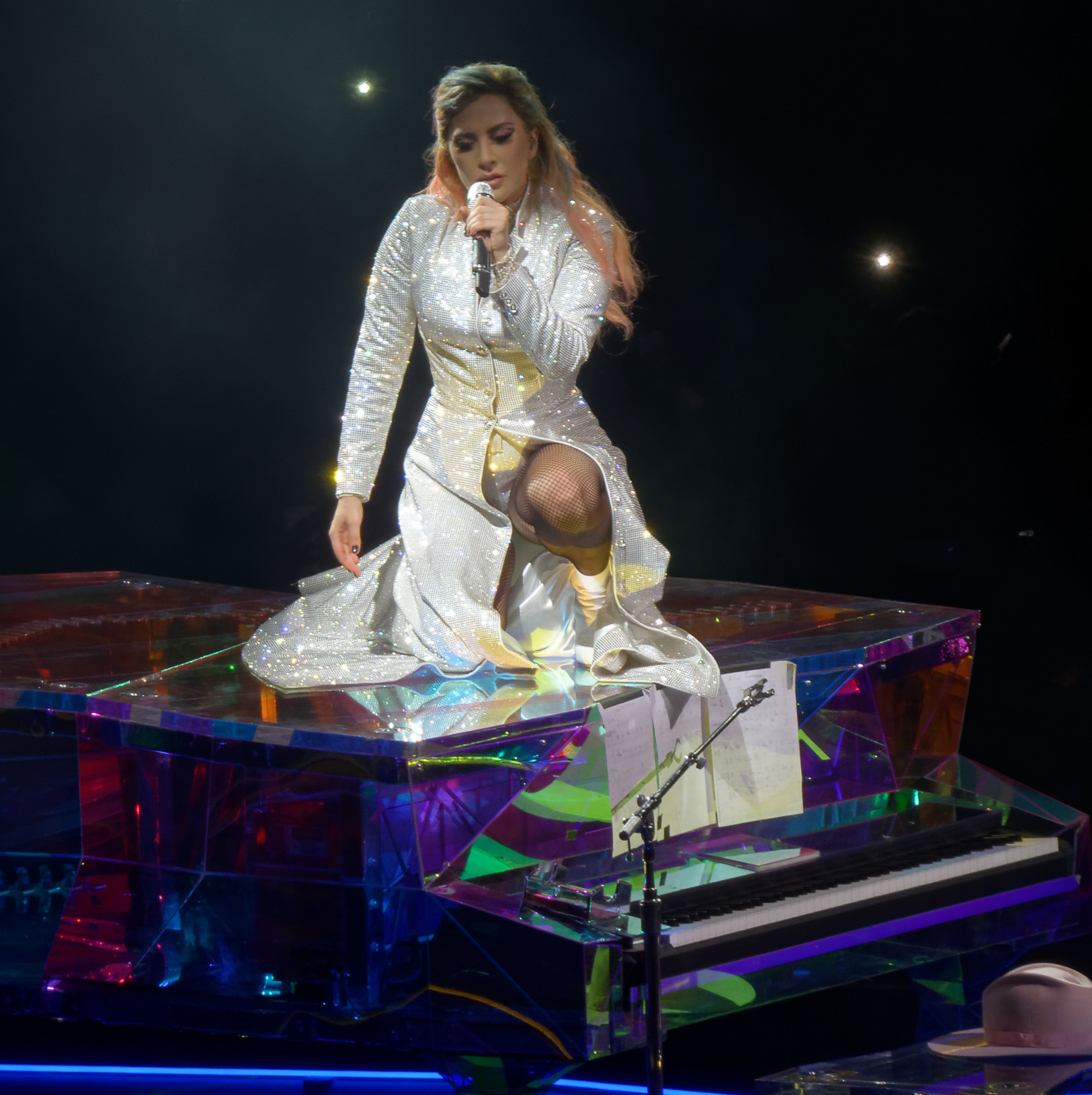 Lady Gaga performing "Million Reasons" in Tacoma, during the Joanne World Tour.